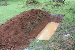 Promotion of community based rainwater harvesting